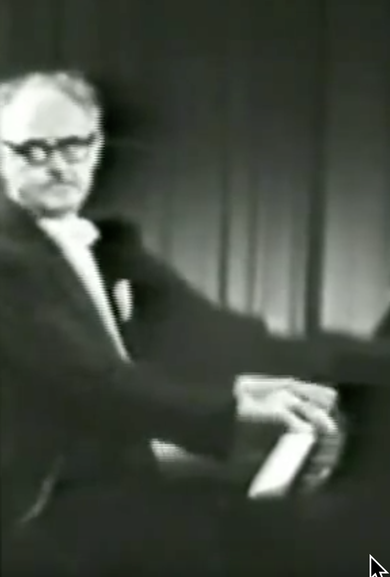 Vladimir Sokoloff, pianist and Curtis Institute teacher